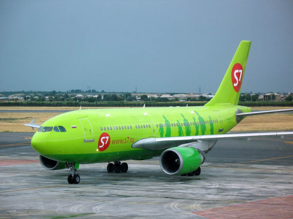 S7 Airlines Airbus A310